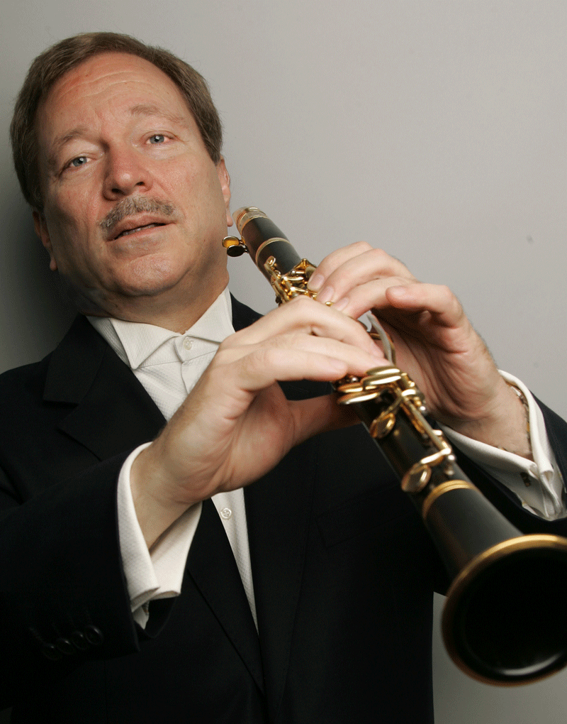 Jazz Clarinetist and Singer